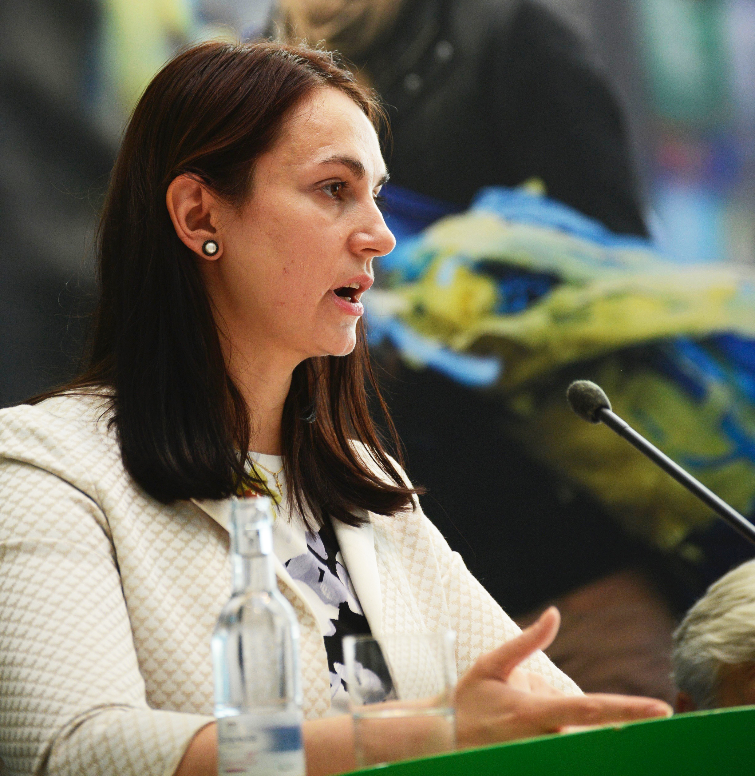 Hanna Hopko, chair of the Foreign Affairs commission of the Ukrainian parliament at an even of the parliamentary group of the German party The Greens